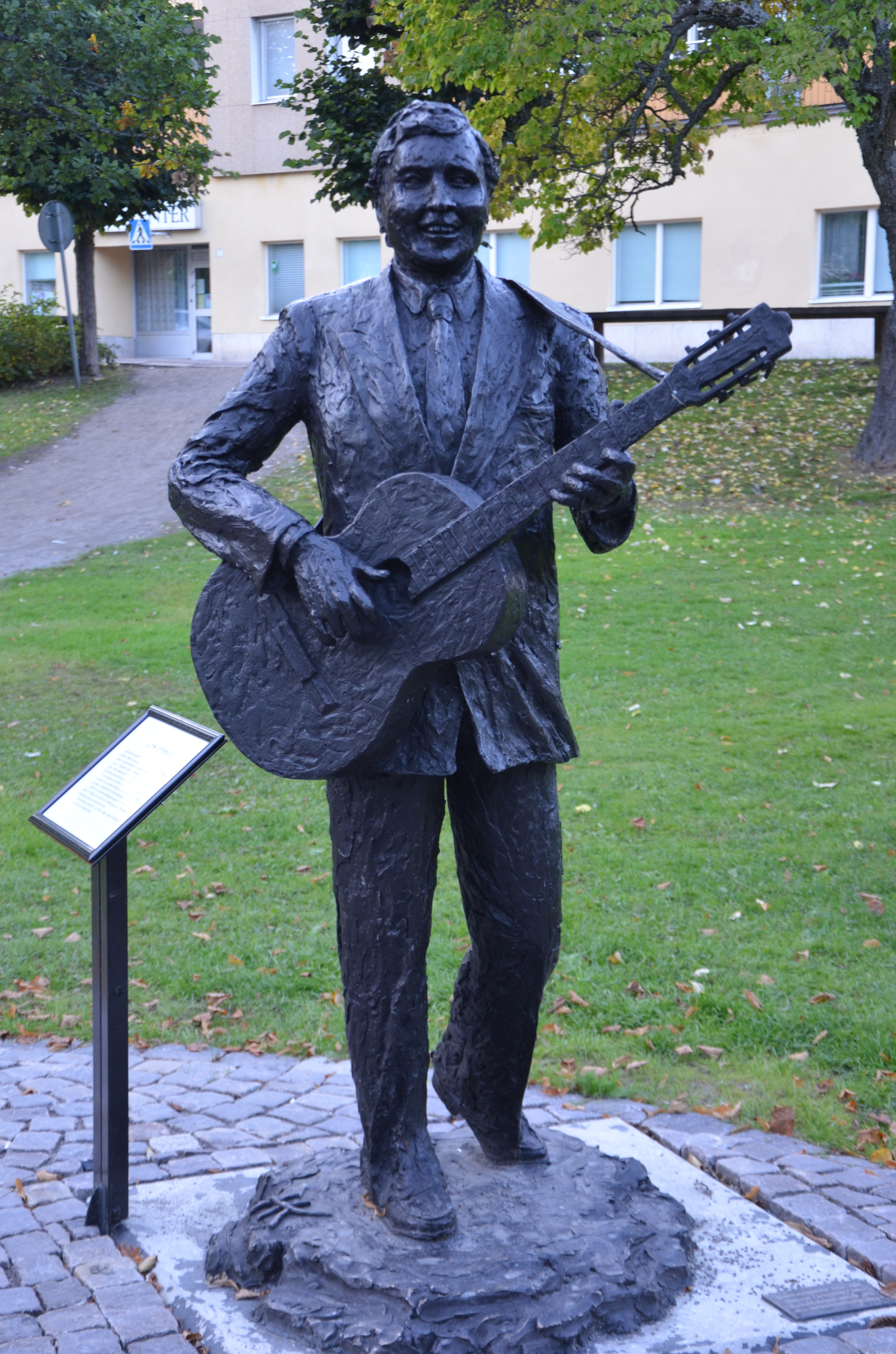 Gunde Johanssonm, Stadsparken i Filipstad